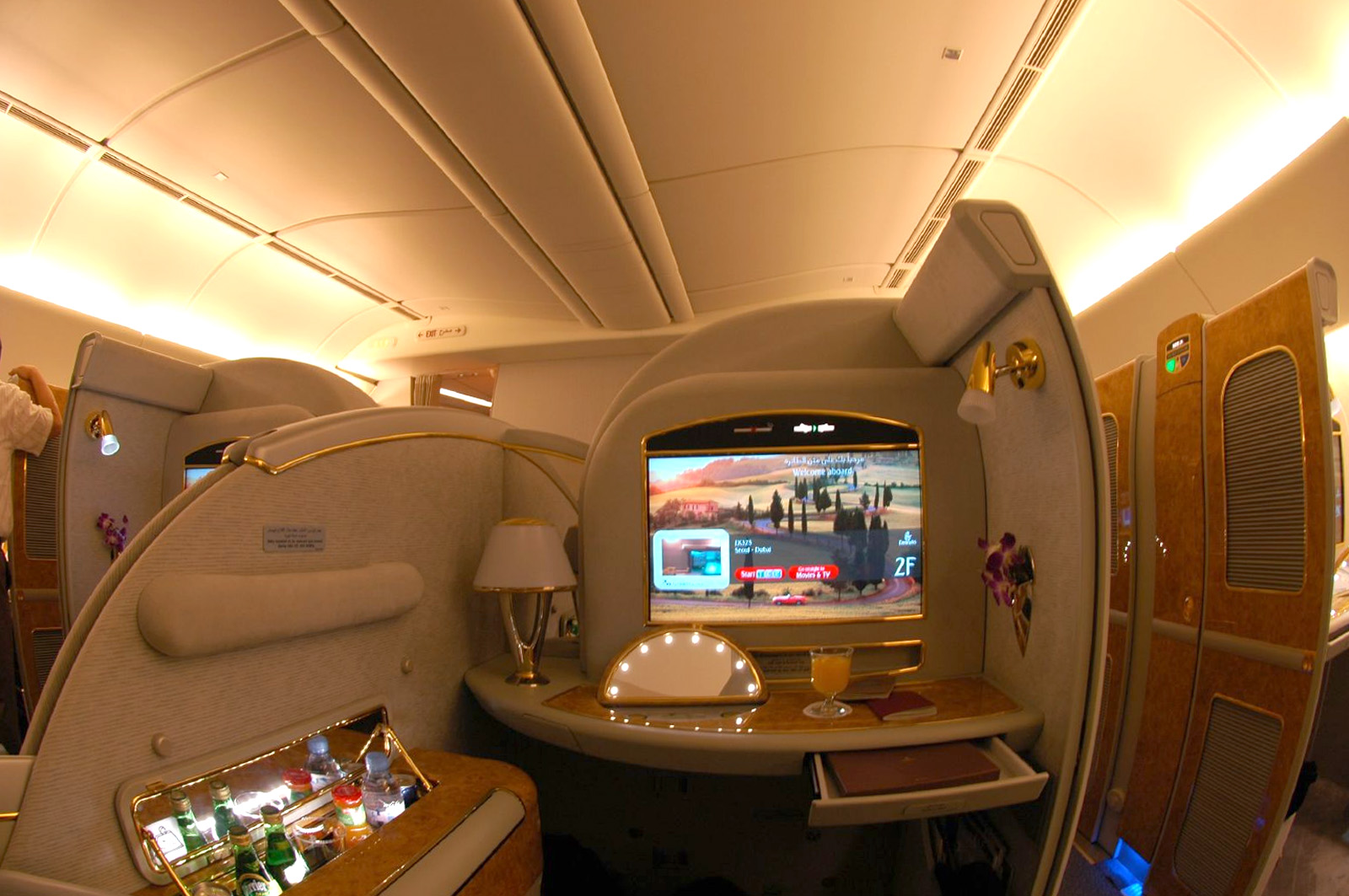 Emirates First Class suite on the ultra long-range Boeing 777-200LR